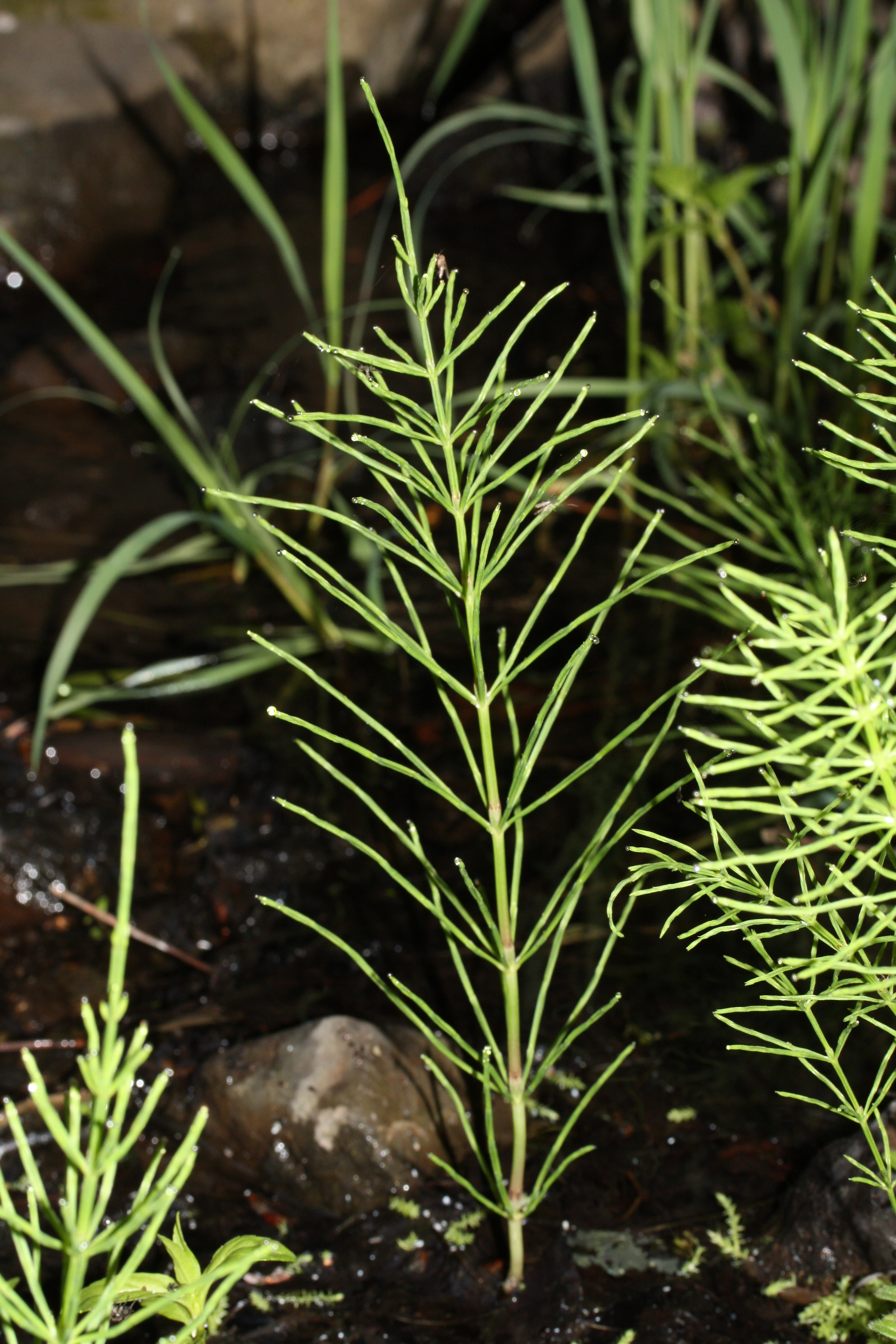 Field Horsetail, Common Horsetail